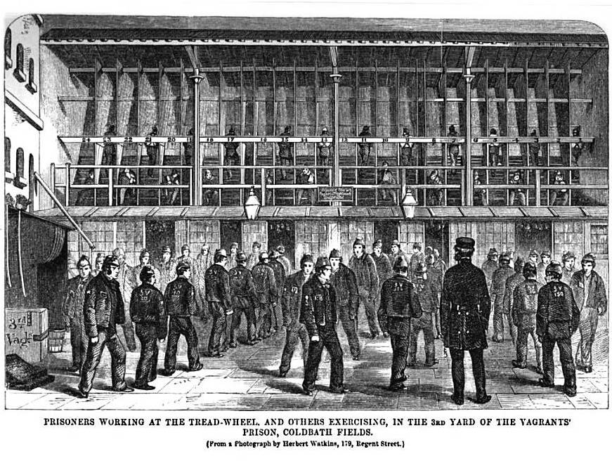 "Prisoners Working At The Tread-wheel, And Others Exercising, In The 3rd Yard Of The Vagrants' Prison, Coldbath Fields" on p306 of The criminal prisons of London, and scenes of prison life (1864) by Henry Mayhew (d. 1887) & John Binny.